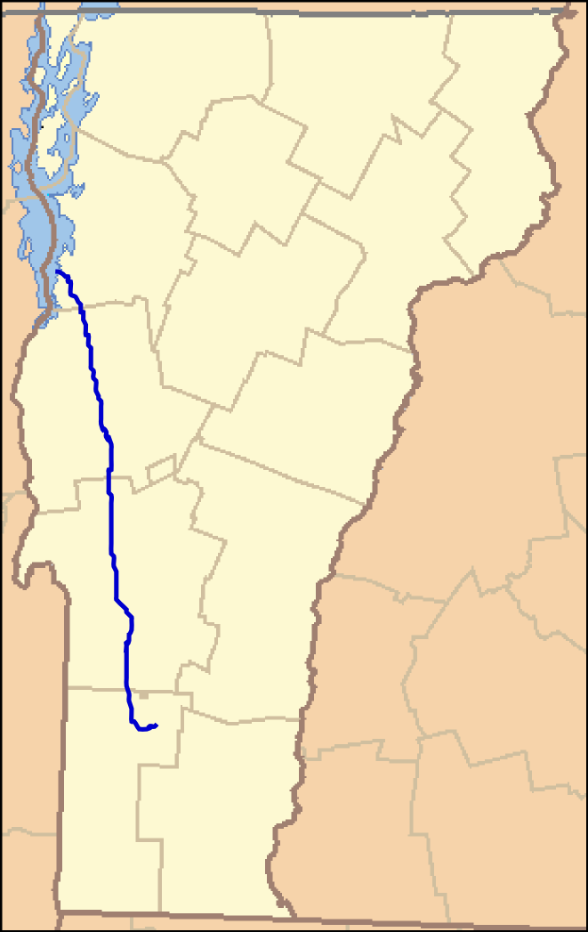 Locator Map for Otter Creek (Vermont)